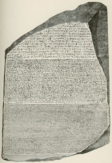 The Rosetta Stone solved a particularly difficult linguistic problem.Top script Egyptian hieroglyphs, 2nd Demotic Egyptian-(citizen-(democracy)-script-("commerce')}, 3rd Greek. (The first (missing)-half of the hieroglyphs can be found in other locations, including the Nabayrah Stele}